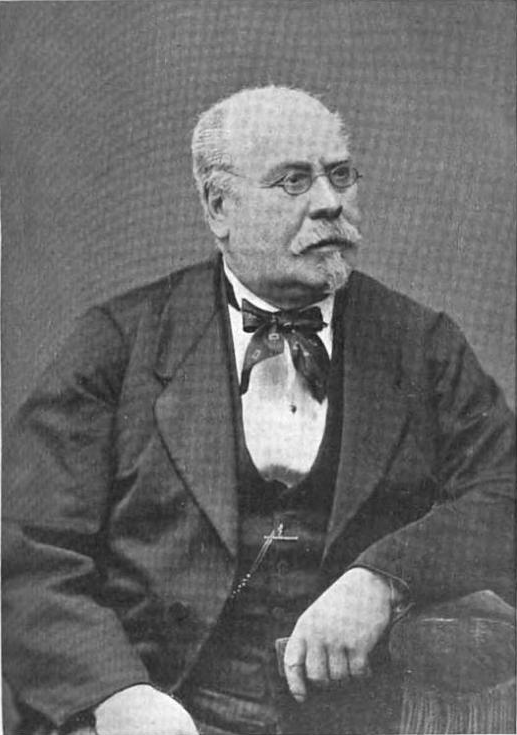 Singing teacher Gaetano Nava. Photo by G. B. Ganzini, Milan.